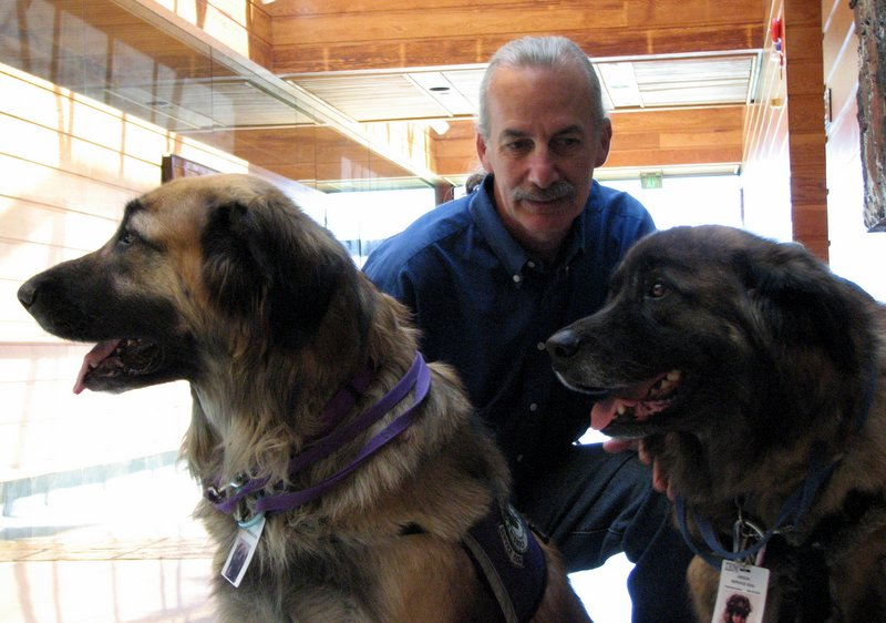 IBM Fellow Don Eigler with his dogs, Neon (left) and Argon (right)